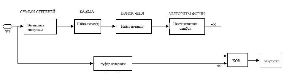 General description of decoding BCH code